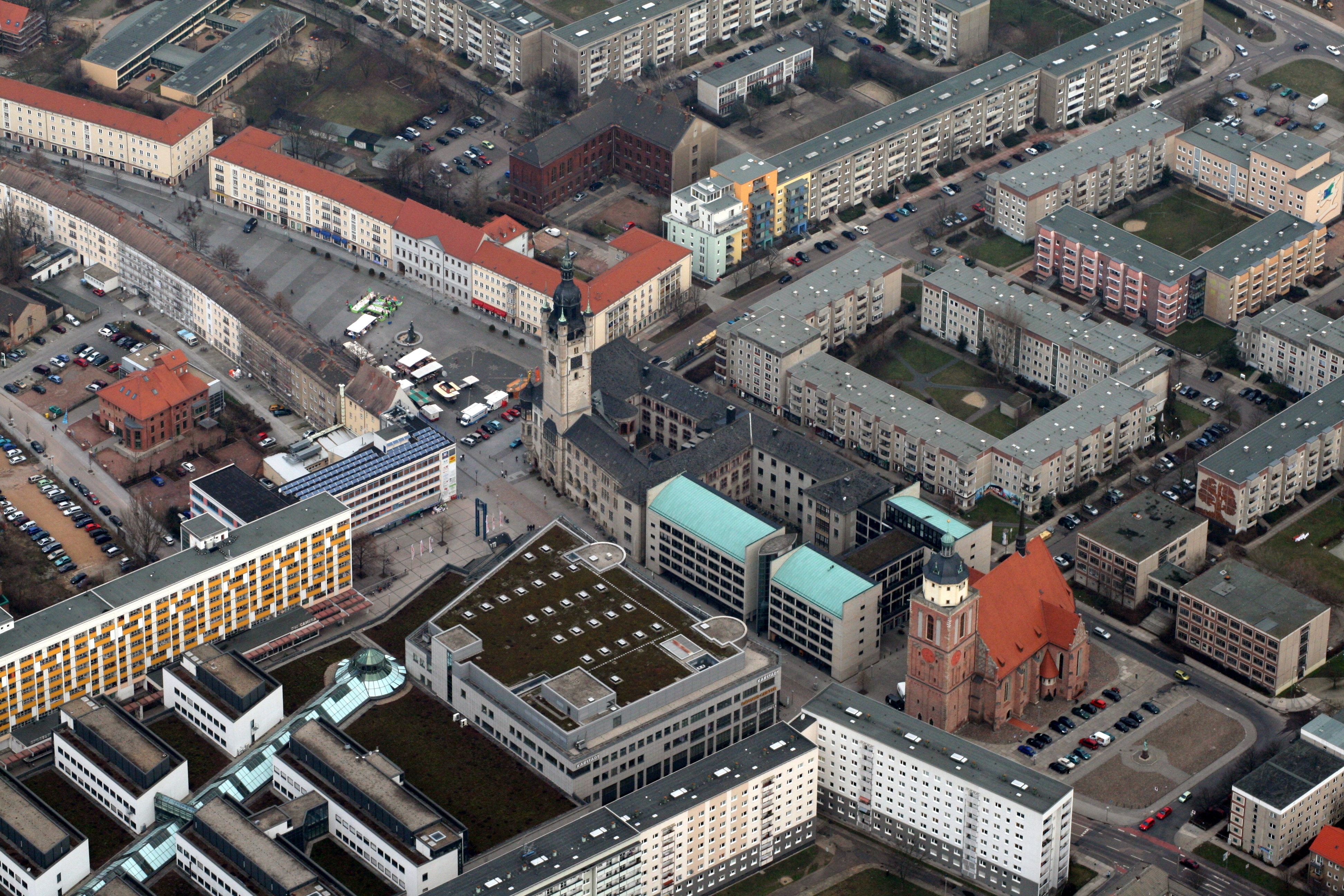 Aerial view of the townhall of Dessau